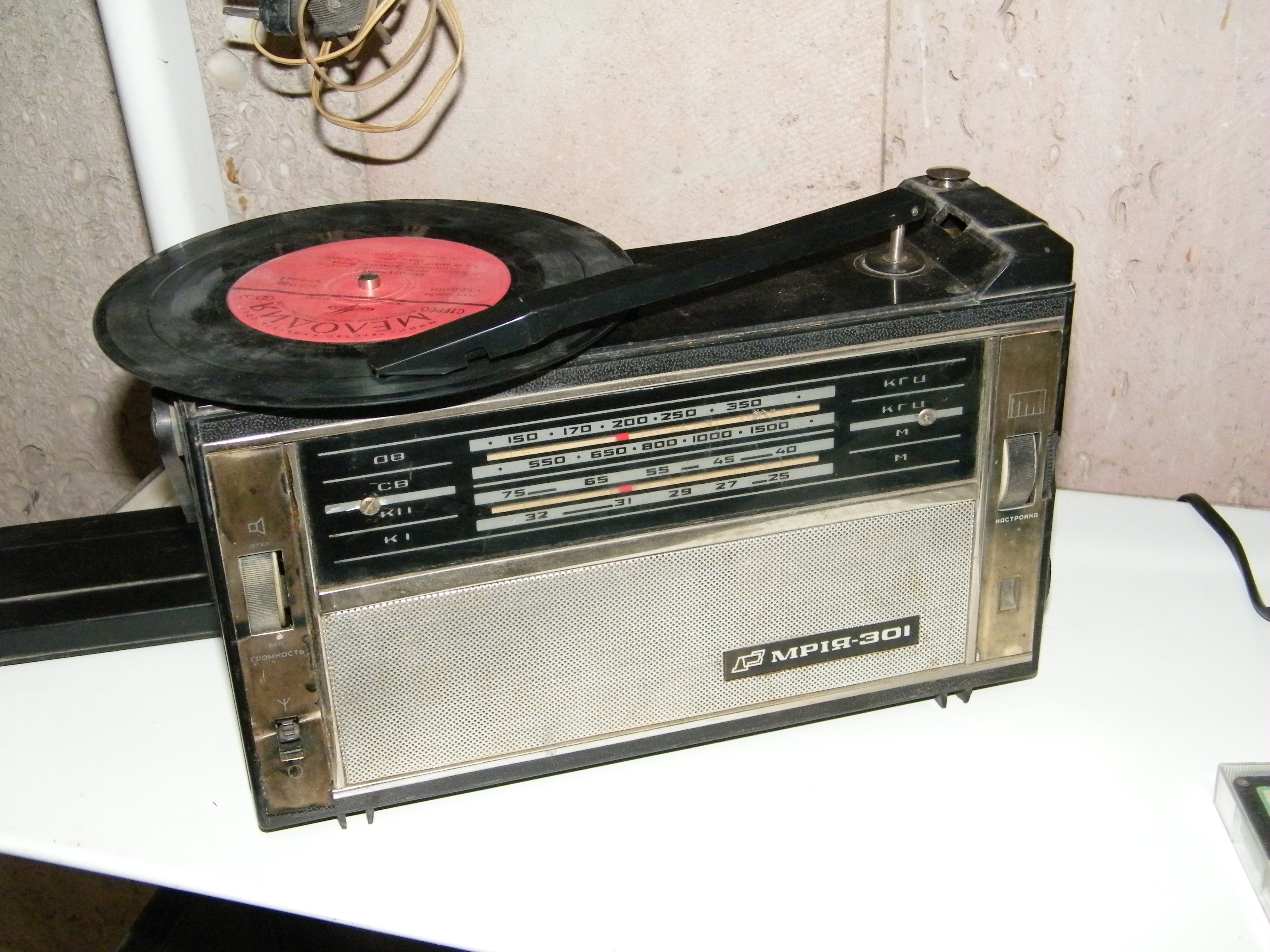 Mriya-301 portable radio grammophone, USSR, Dnepropetrovsk Radio Plant, 1971